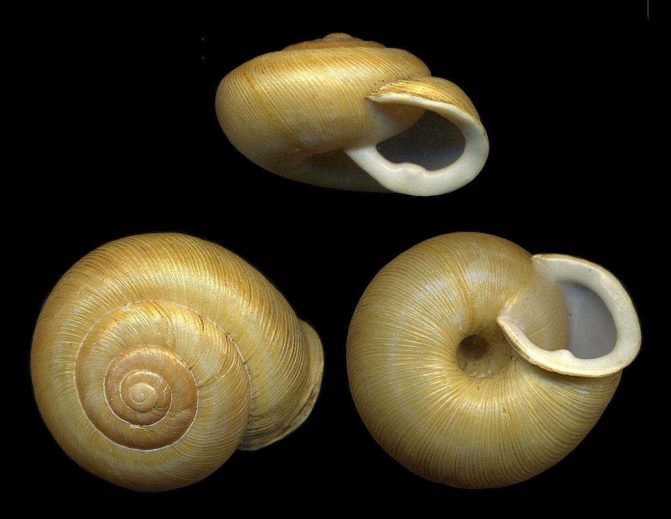 The polygyrid land snail Allogona profunda from vicinity of Cincinnati, Ohio; col. by R. Petit, 1966.